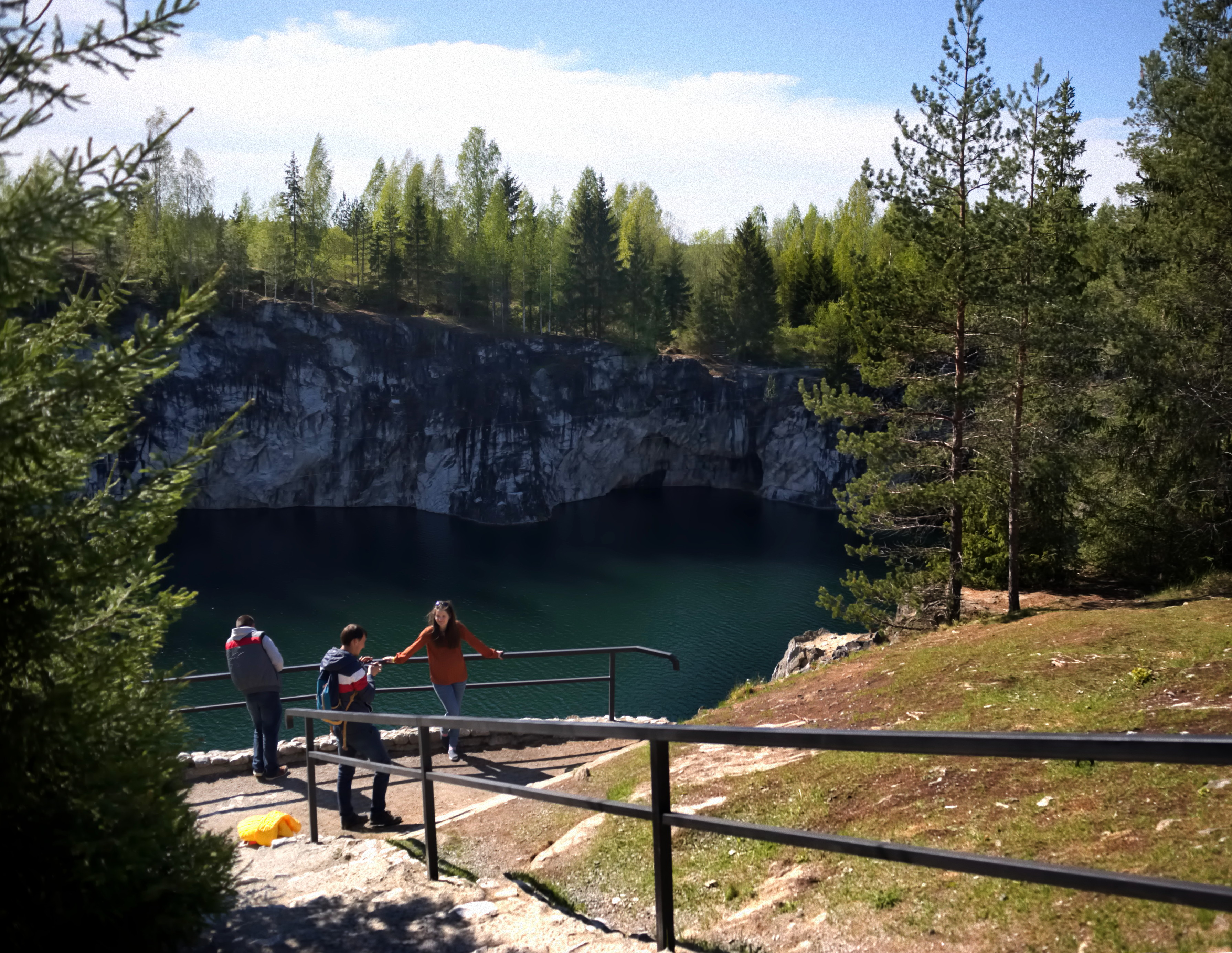 Ruskeala Marble Quarry May 13th 2016